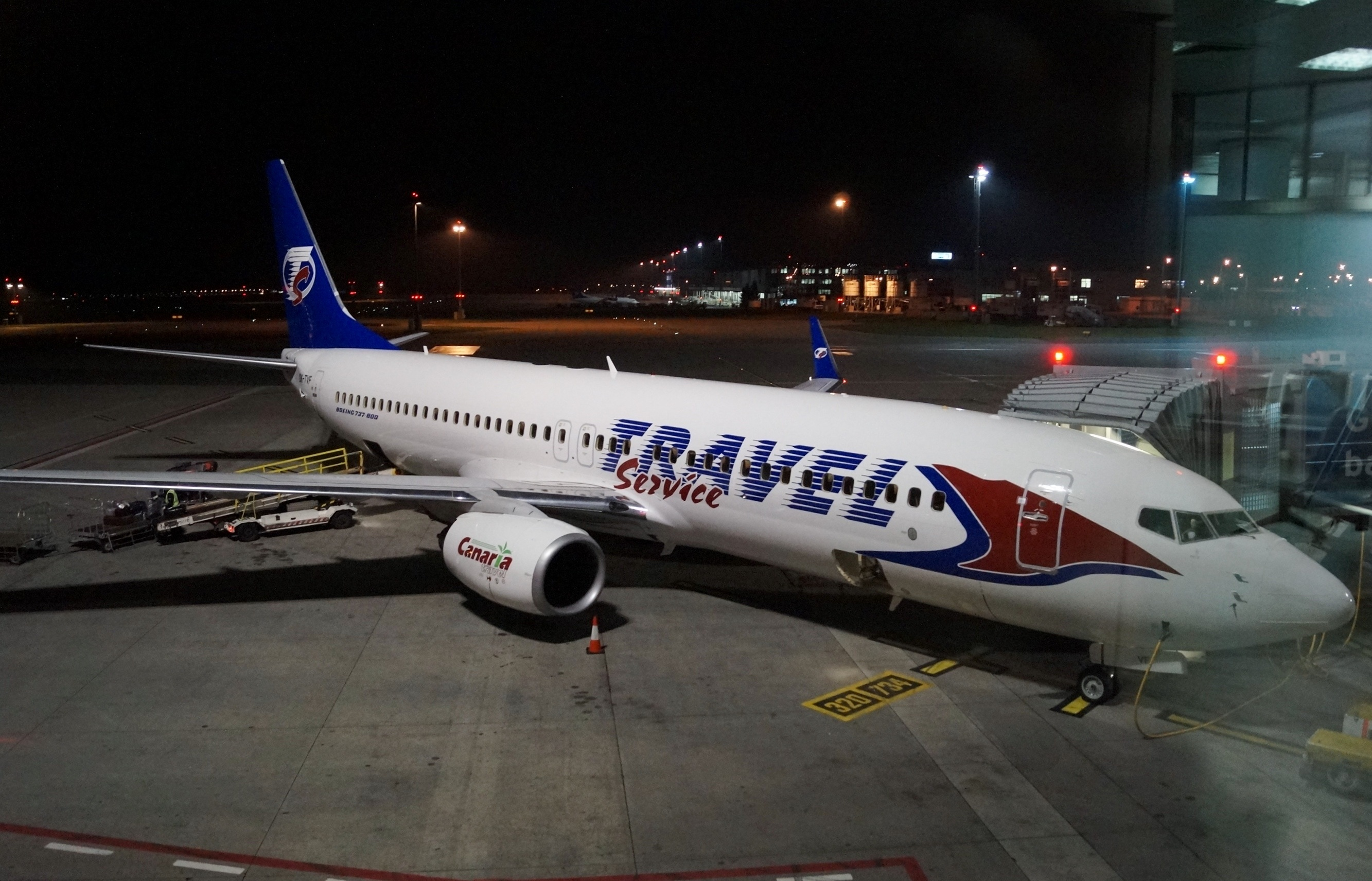 Travel Service B737-800